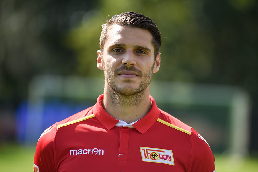 Teamfoto 2016/17